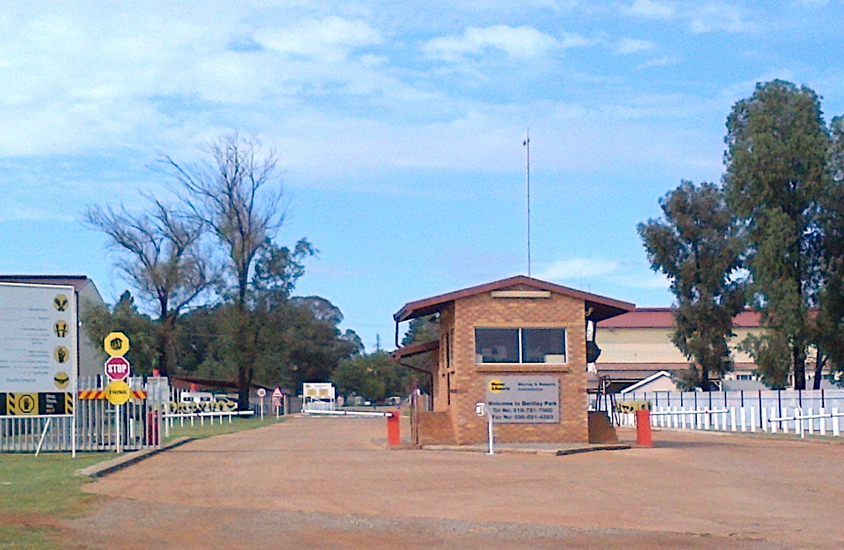 Murray and Roberts Cementation, Bentley Park, Northwest South Africa